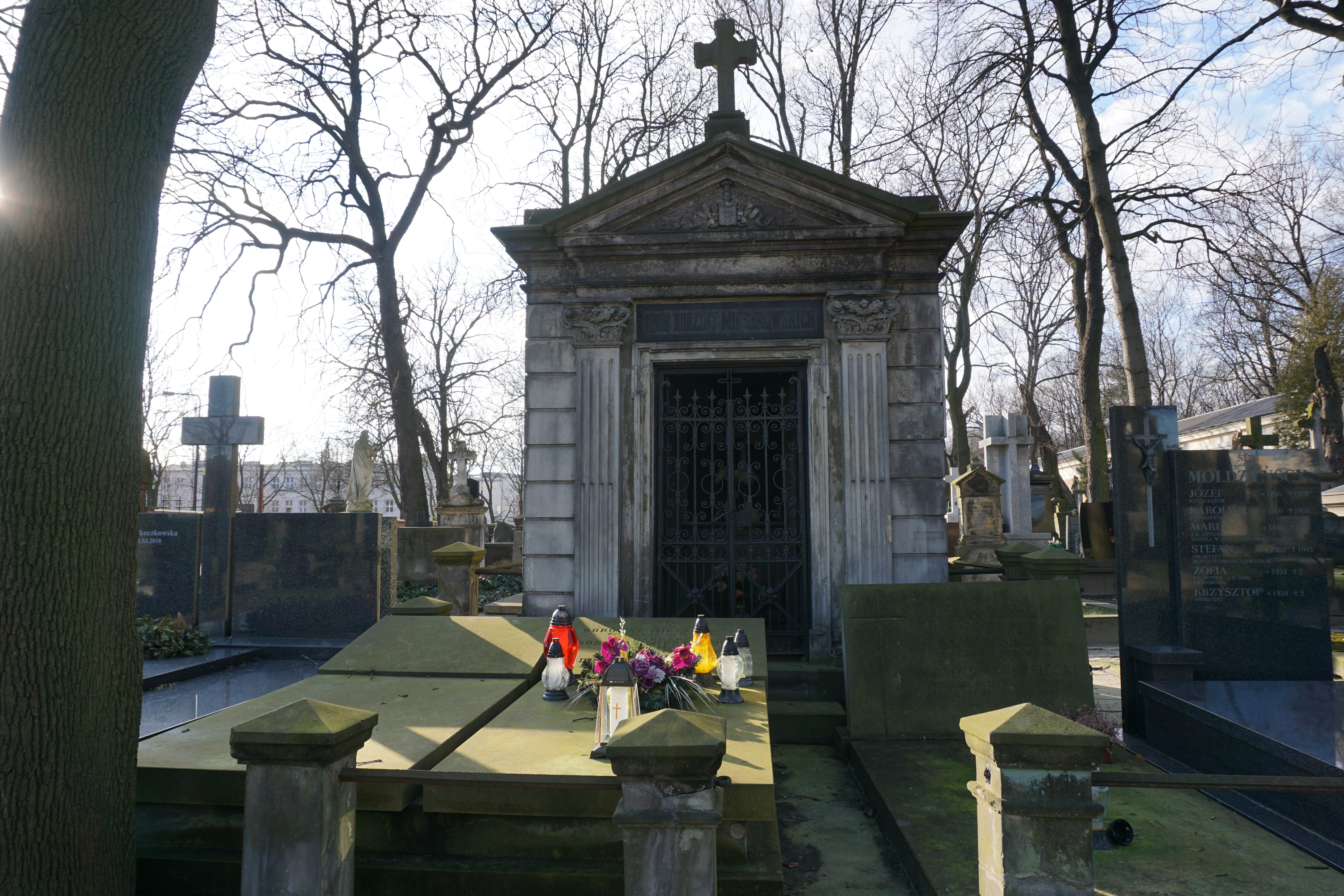 The grave of Bronisław Mieszkowski at the Powązki Cemetery (section 163, row 1, 2, grave 27, 28, 29)